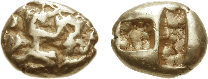 ISLANDS off IONIA, Samos. Circa 600-570 BC